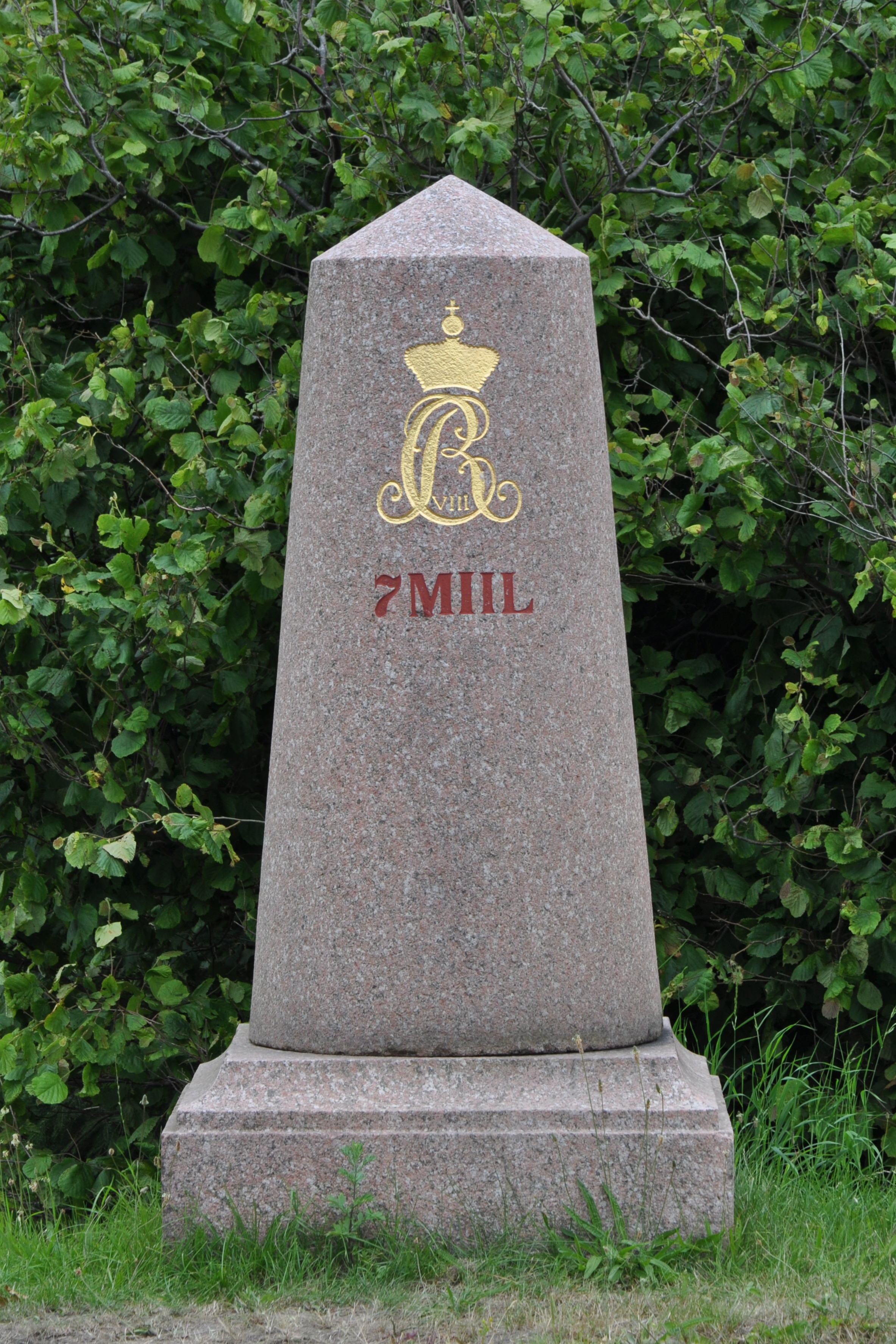 Historic milestone at Gammel Hovedvej near Grønnemose (Assens Kommune).